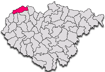 Map Salaj County Romania